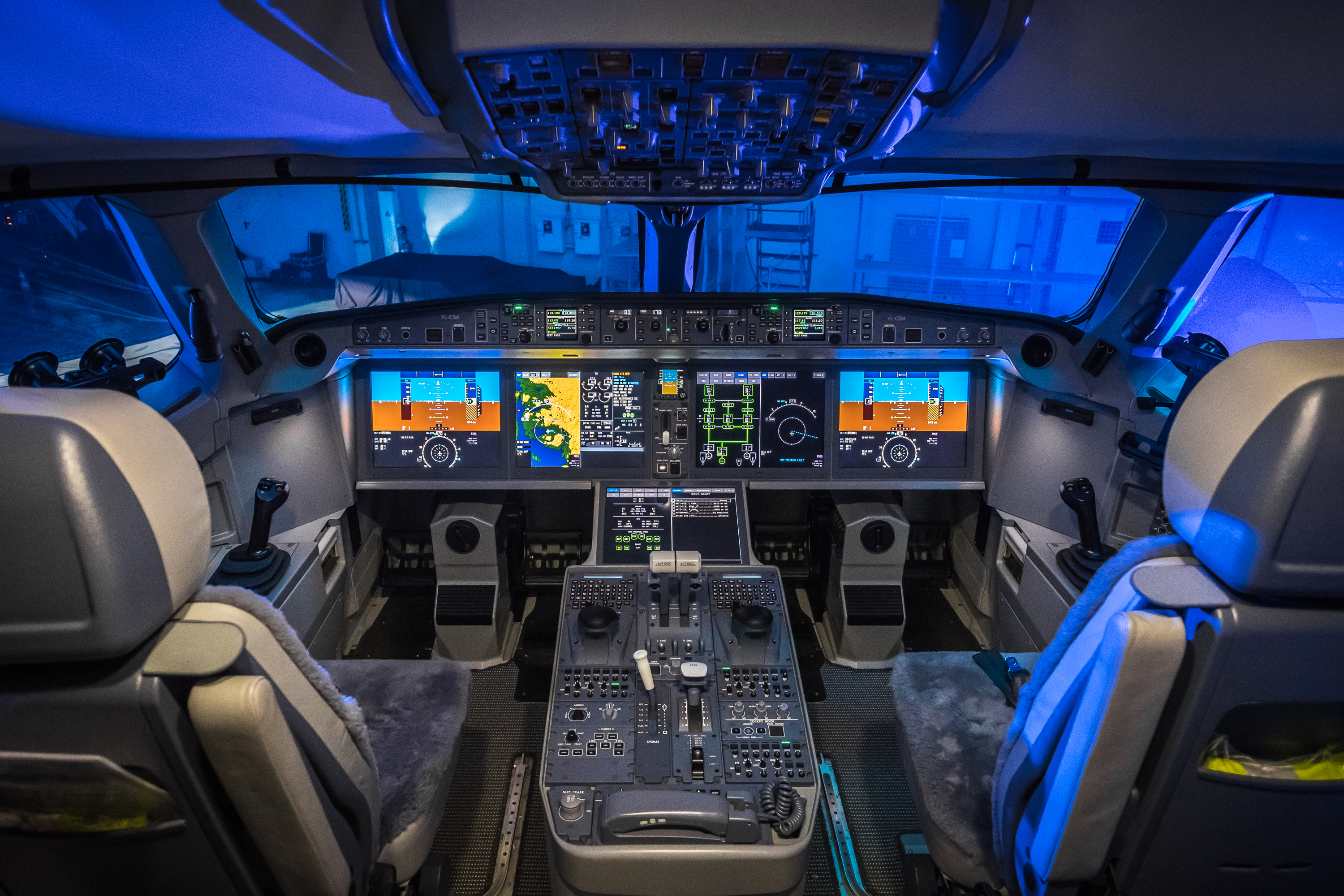 airBaltic Bombardier CS300 launch event